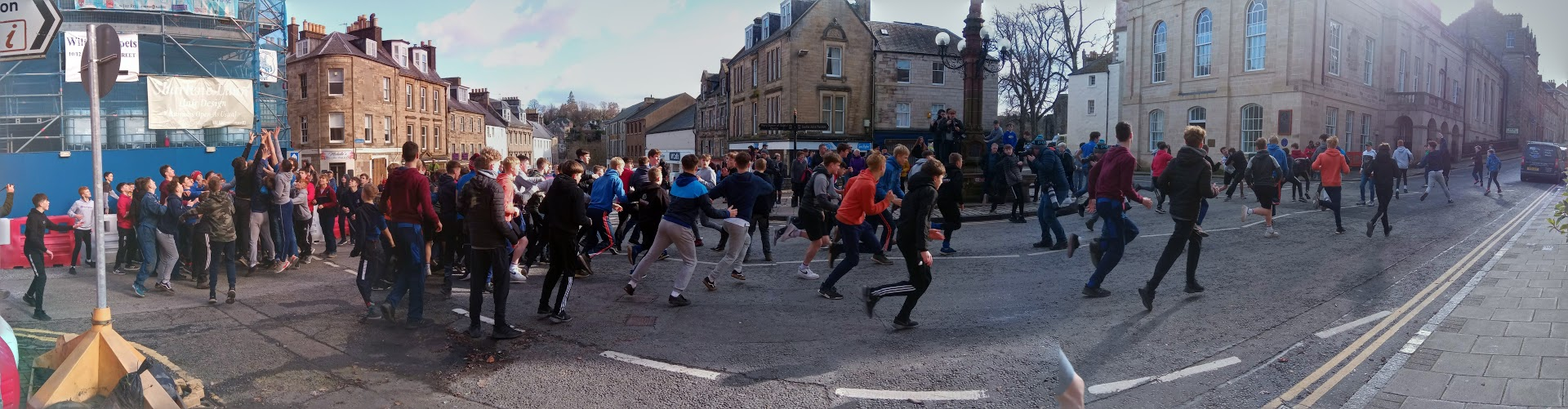 Jedburgh Callant's Hand Ba Game